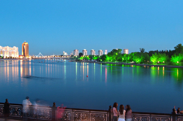 View of Nur-Sultan